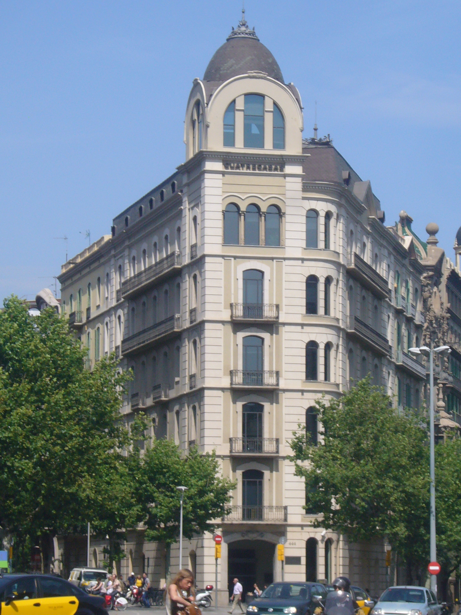 Antigua Oficina Cuatrecasas - Barcelona